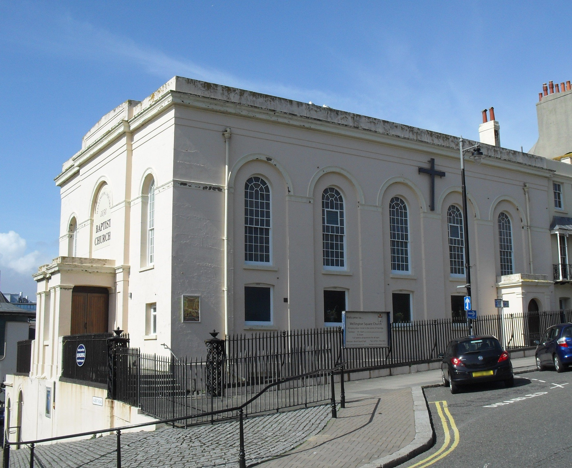 Wellington Square Baptist Church, Hastings, East Sussex, seen from the southeast